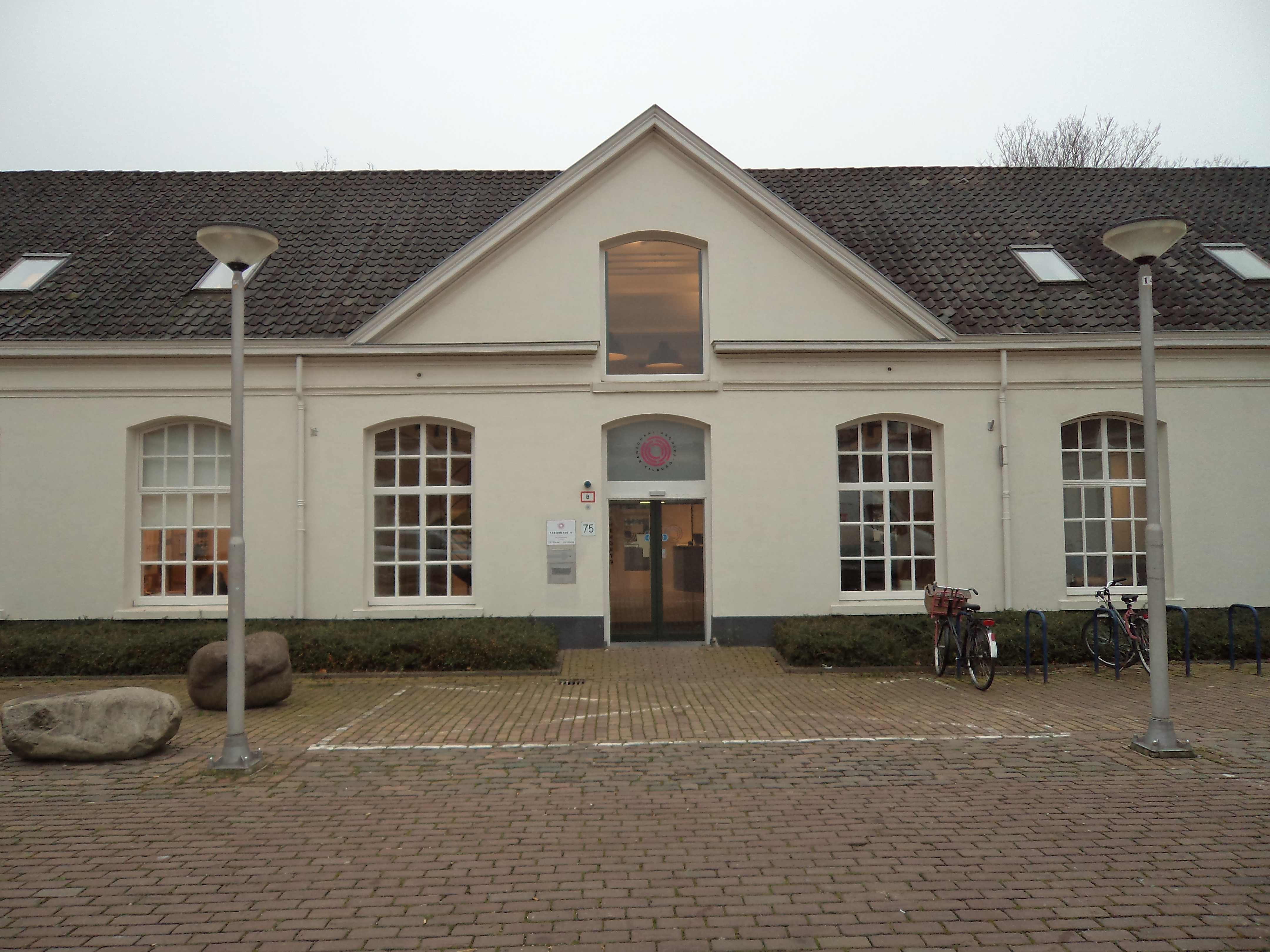 Front of the building at Kazernehof 75 of Regional Archive Tilburg